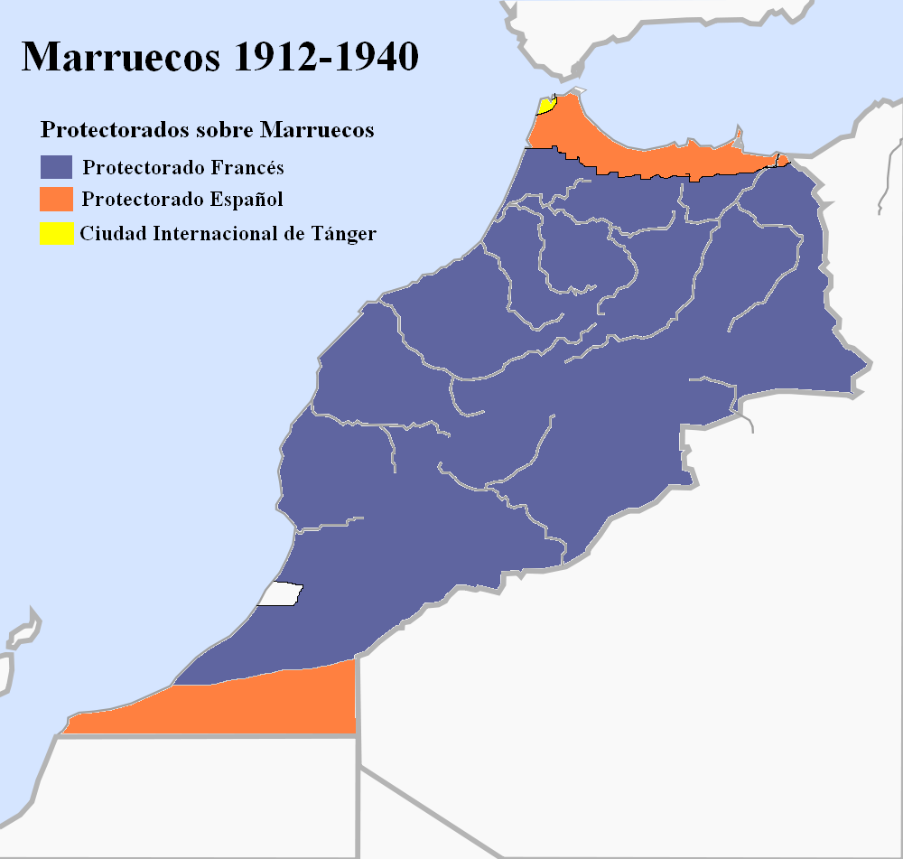 Map of Morocco 1912-1940 and 1945-1956